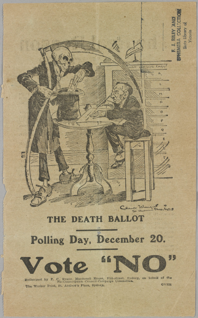 "The Death Ballot", a poster advocating a "No" vote against conscription at the Australian plebiscite, 1917